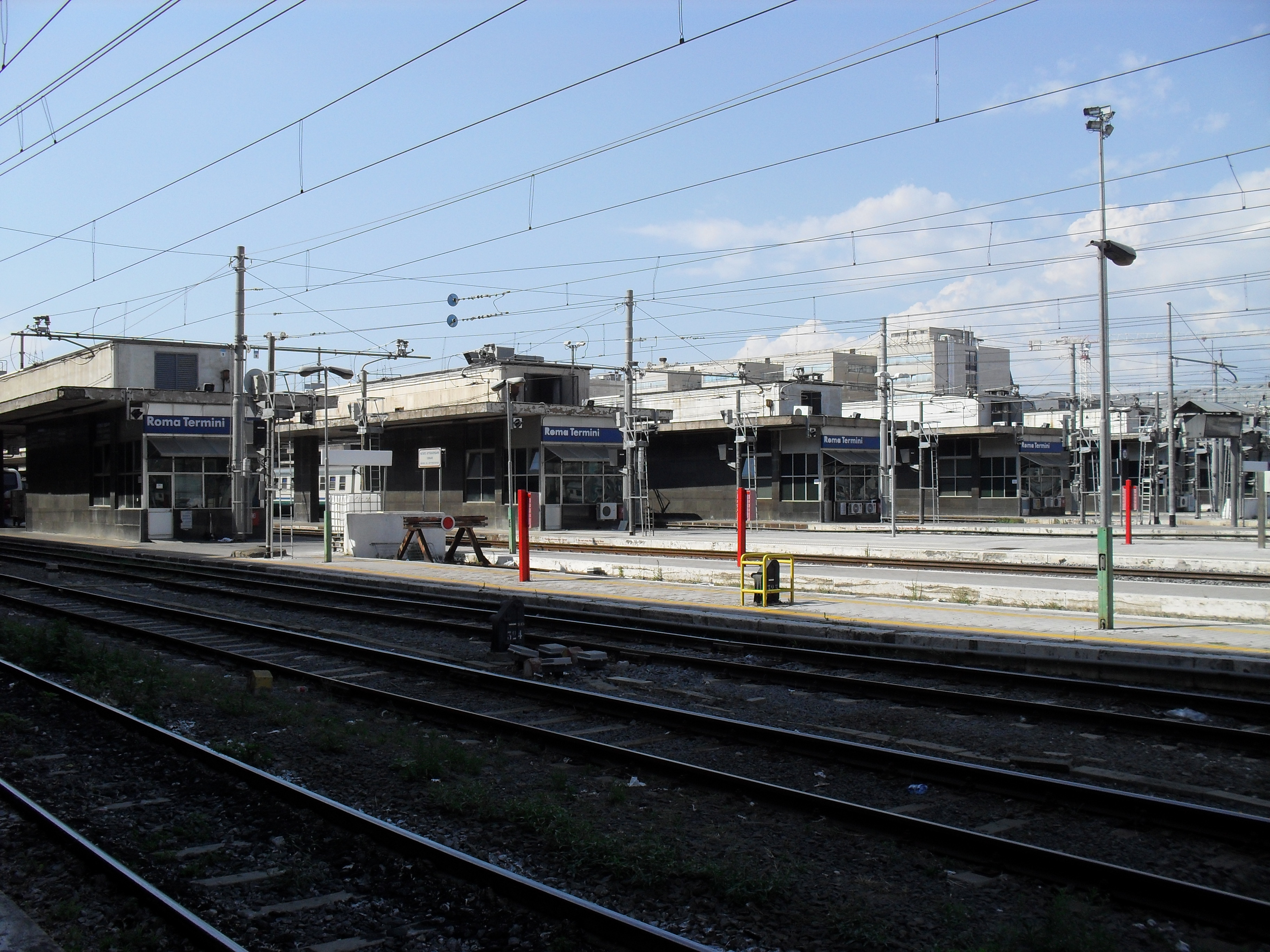 Roma Termini